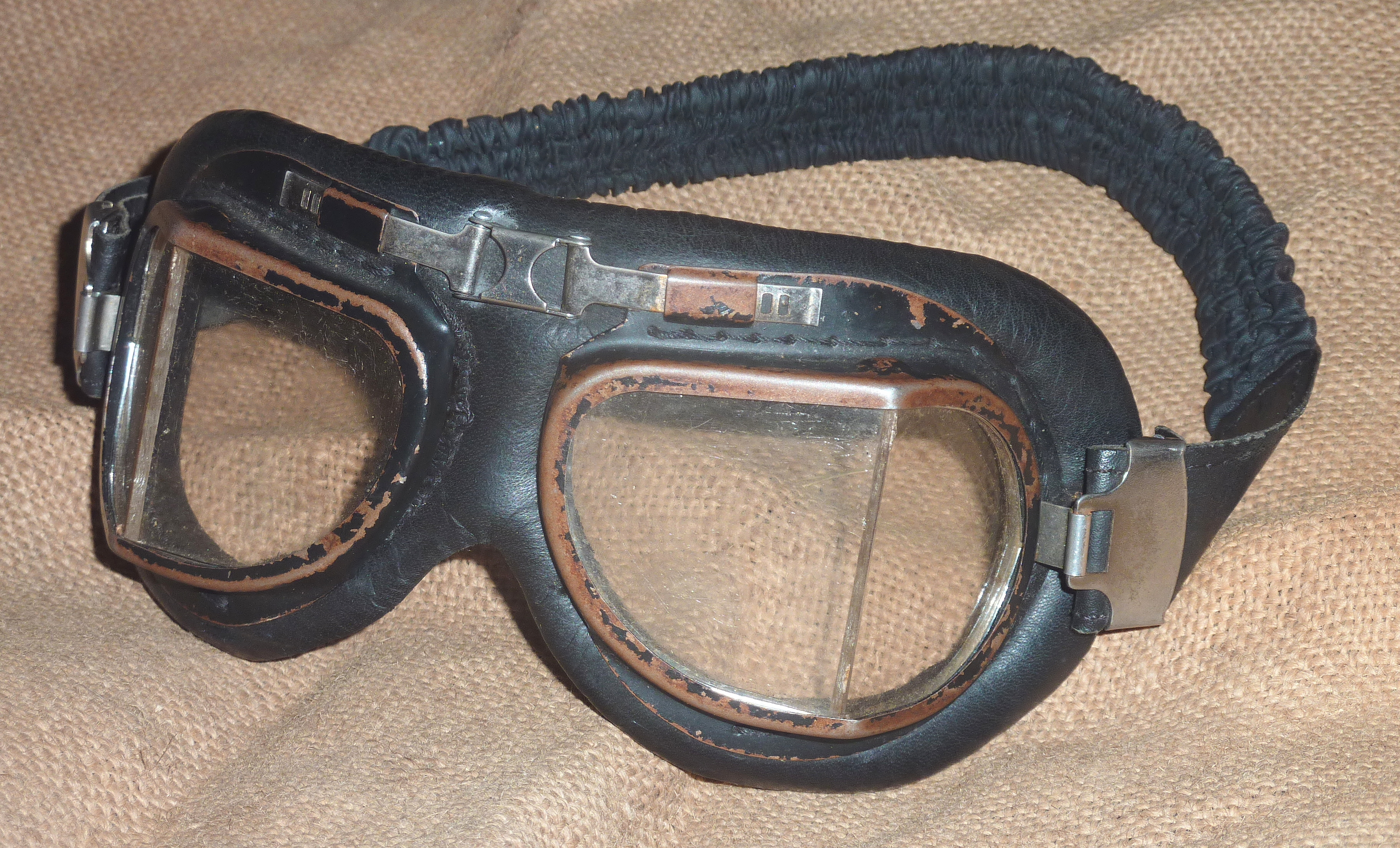 Flying goggles; 1980s replica of a WWII RAF model (probably the Mk. VIII series), wear and tear from heavy use as protective bicycling goggles for more than 30 years.